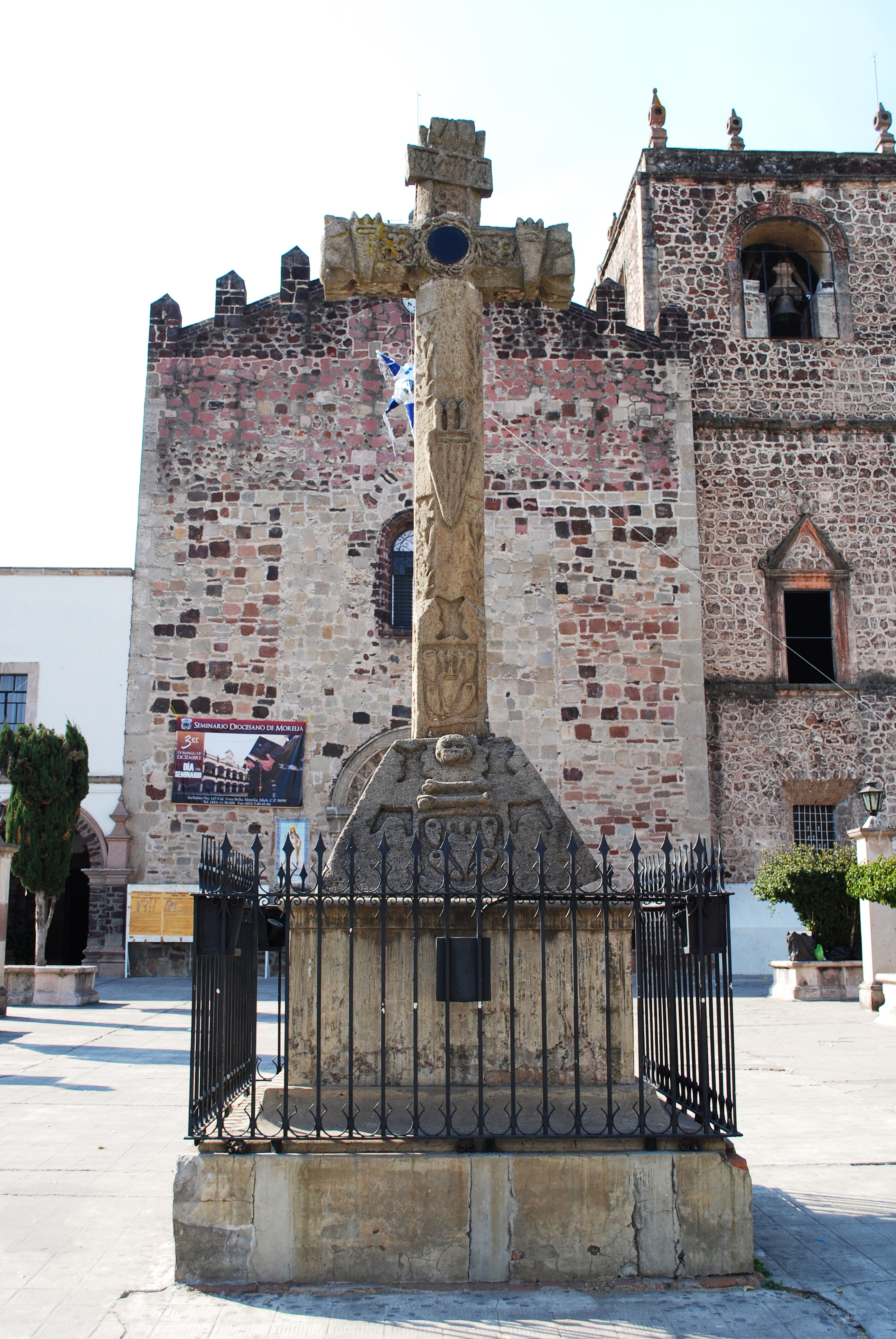 Atrium cross and facade of the Franciscan Mission Church of San Francisco in Ciudad Hidalgo, Michoacan